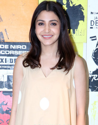 Anushka Sharma promotes her film Jab Harry Met Sejal.